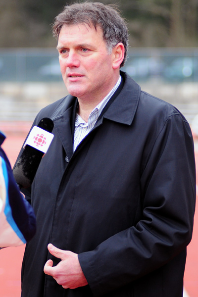 photo of soccer player and executive Bob Lenarduzzi being interviewed by media. Wilson Wong photo.